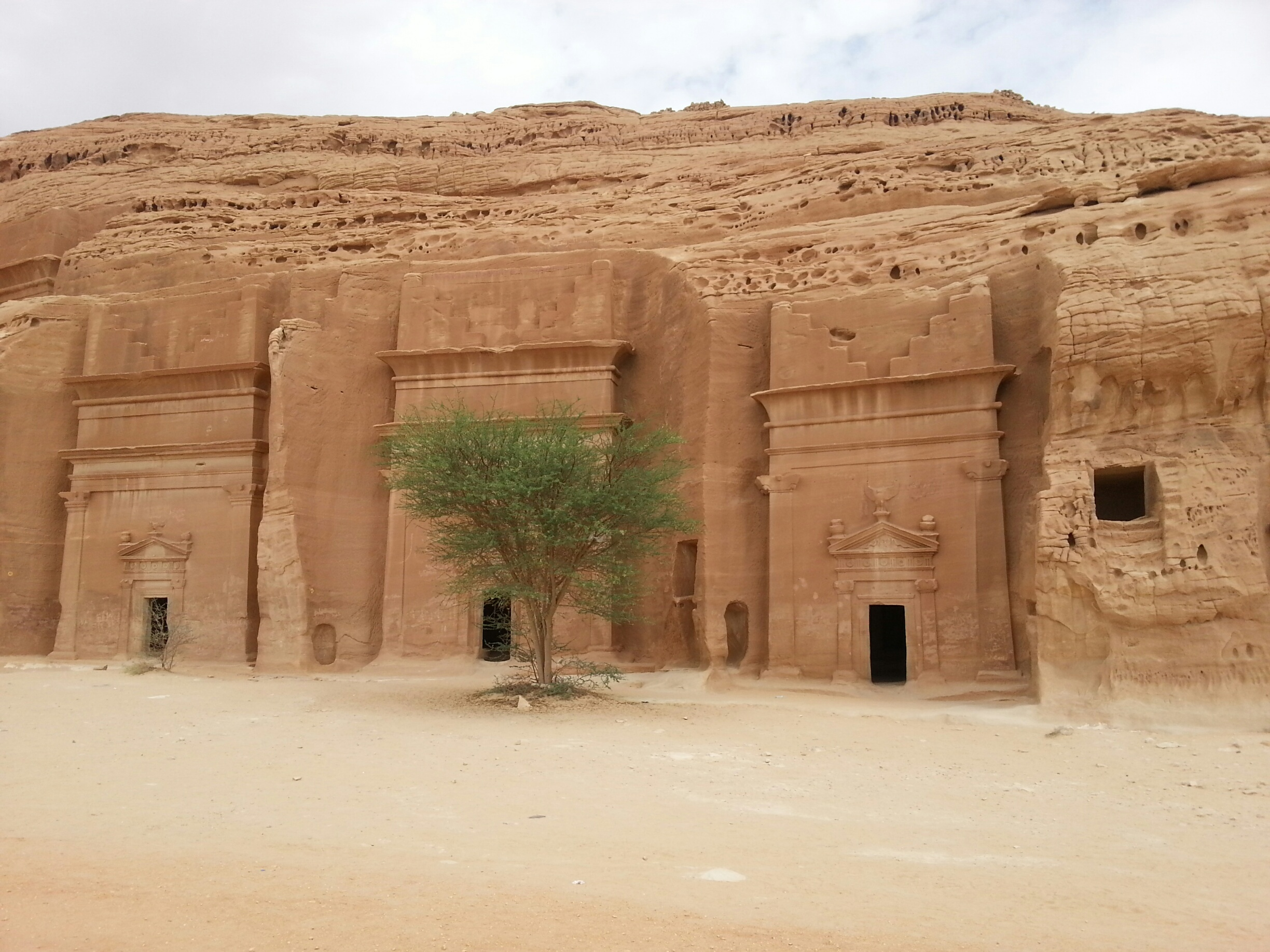 This photo taken at Mada'in Saleh, Al Ula, Saudi Arabia